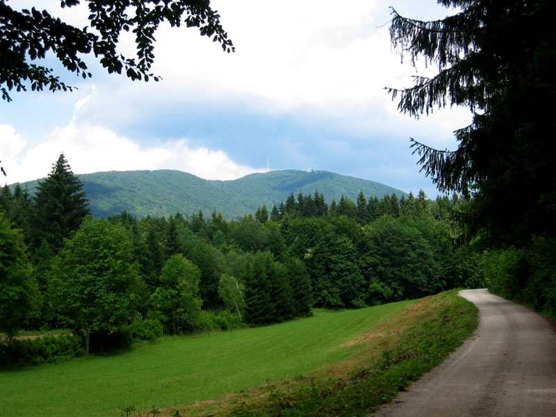 Gorjanci mountain (Slovenia/Croatia) on Slovene side, telecommunication tower on Trdinov vrh (1189 m) is visible.